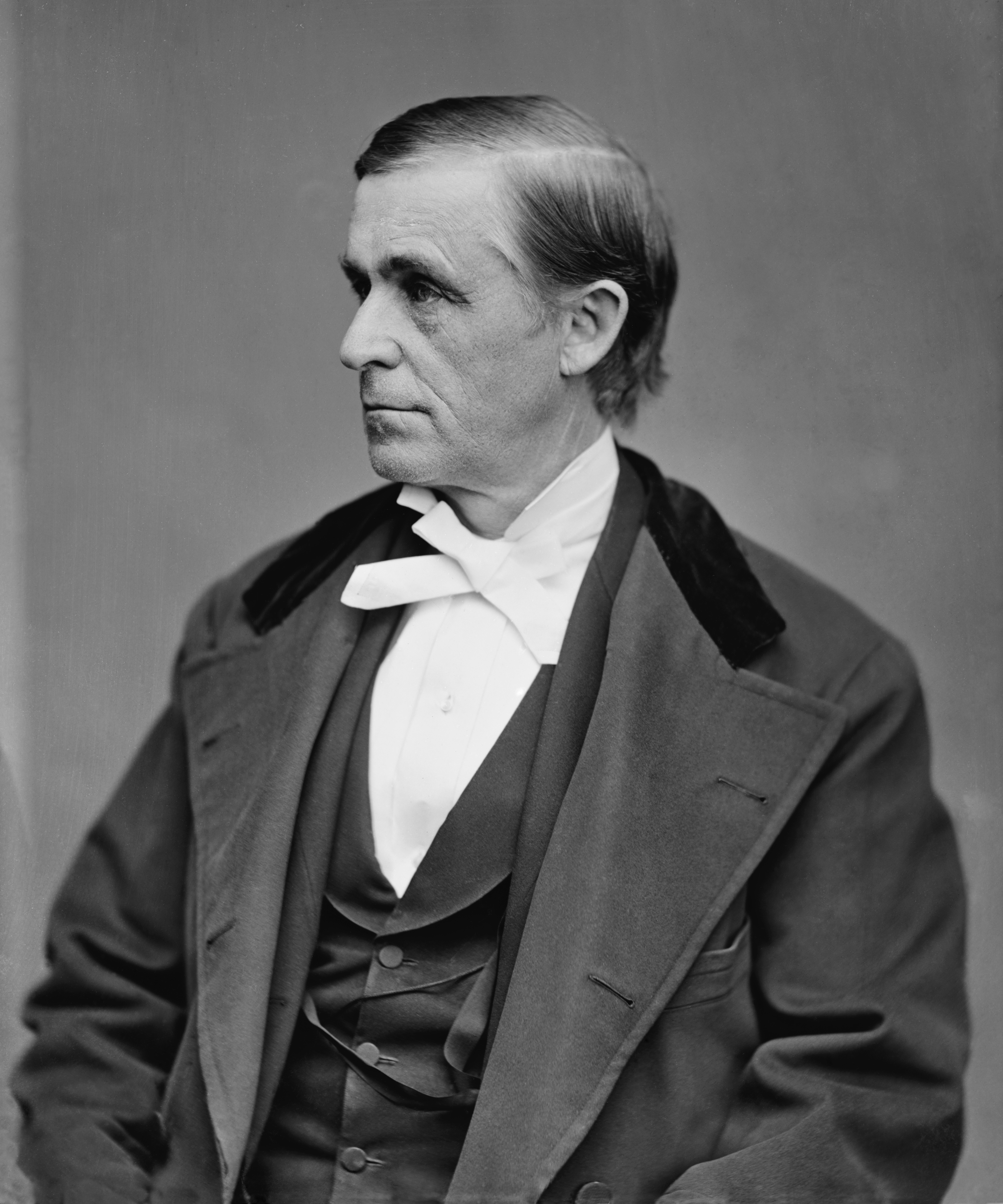 Byron Sunderland (1819–1901) was an American Presbyterian minister and served as a Chaplain of the United States Senate during the American Civil War. He oficiated at the wedding of President Grover Cleveland, the only one performed in the US White House.